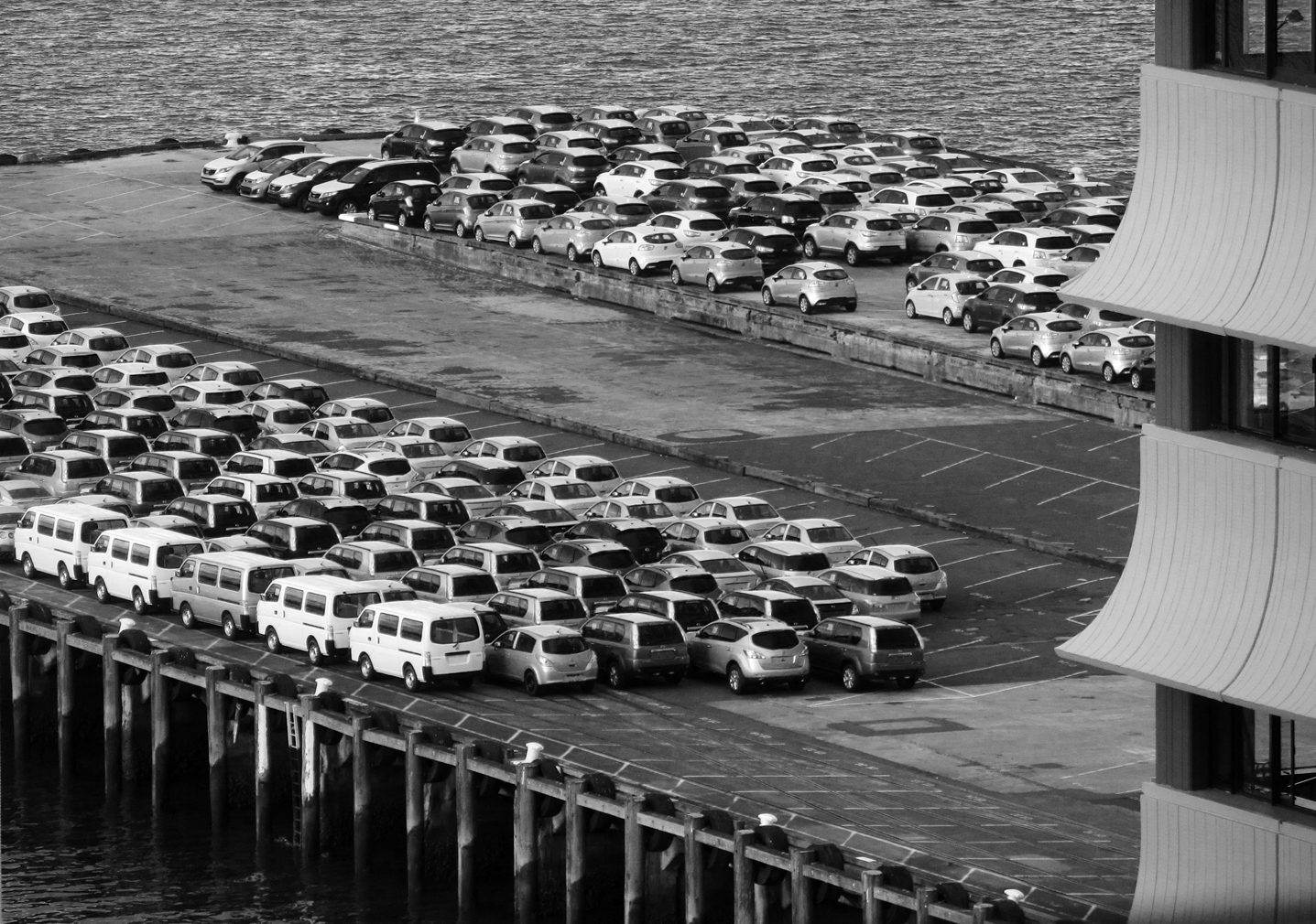 My eye was caught by these rows of cars. Why are they lined up like that? It's the strangest carpark I've ever seen... Being at the port, perhaps these are imported cars waiting to be shipped around the country?